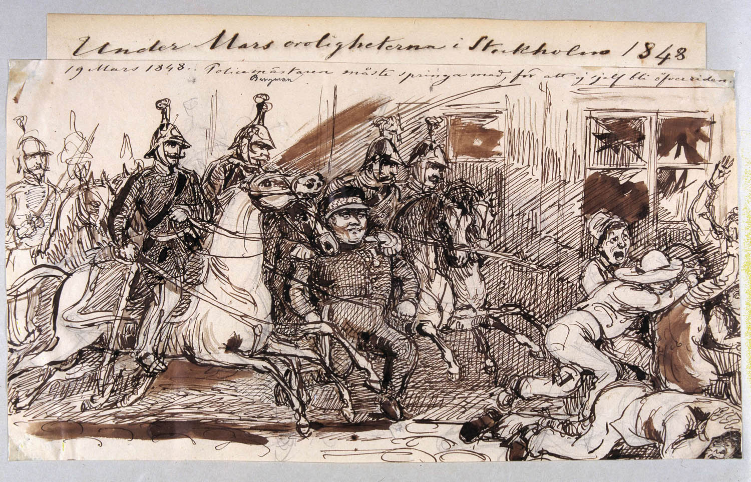 "March troubles" in Stockholm, 1848. Fritz von Dardel - Nordiska Museet - NMA.0035335